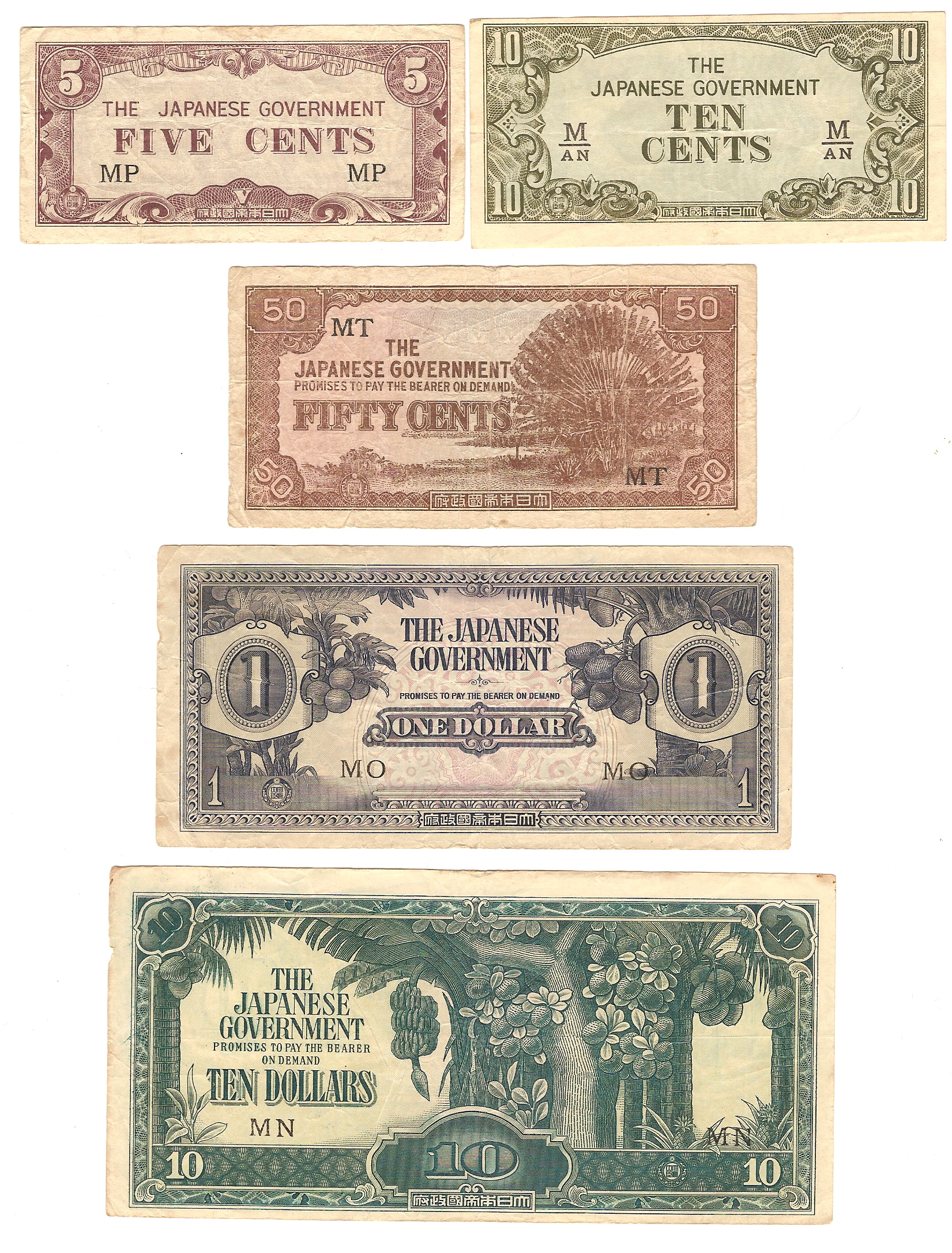 Currency notes introduced by the Japanese authorities during World War II. The denominations shown are 5 cents, 10 cents, 50 cents, 1 dollar and 10 dollars. It seems likely, but is not known for certain by the uploader (Jasper33), that this currency was introduced by the Japanese across all of Borneo after their invasion in 1941, and would have been in use until the Japanese surrenders across the territory in August and September 1945. These particular notes were in the possession of a civilian couple interned at Batu Lintang camp, Kuching, Sarawak, Borneo, during World War II. The couple were resident in North Borneo before being transferred to Batu Lintang, and so may have first used the notes there; alternately they may have earned the money whilst in the camp.